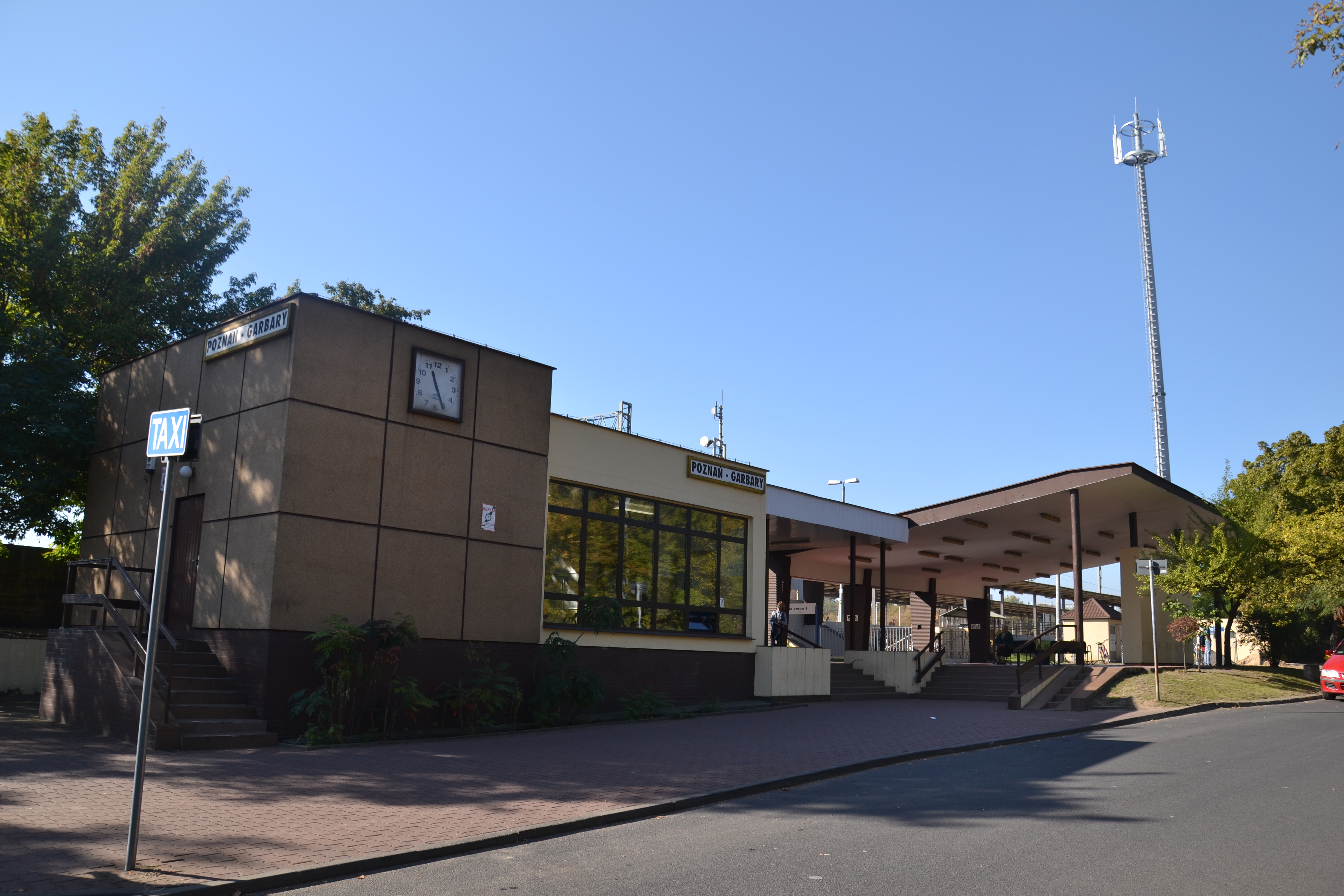 Budynek stacji Poznań Garbary This photo was taken during Railway Wikiexpedition 2015 set up by Wikimedia Polska Association in cooperation with Fundacja Grupy PKP. You can see all photographs in category Wikiekspedycja kolejowa 2015.